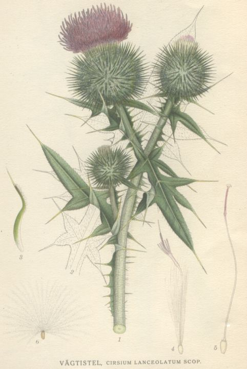 flowering branch a leaf from lower part of stalk ett holkfjäll (2/1) a single flower (1 1/2) pistill(2/1), flying fruit